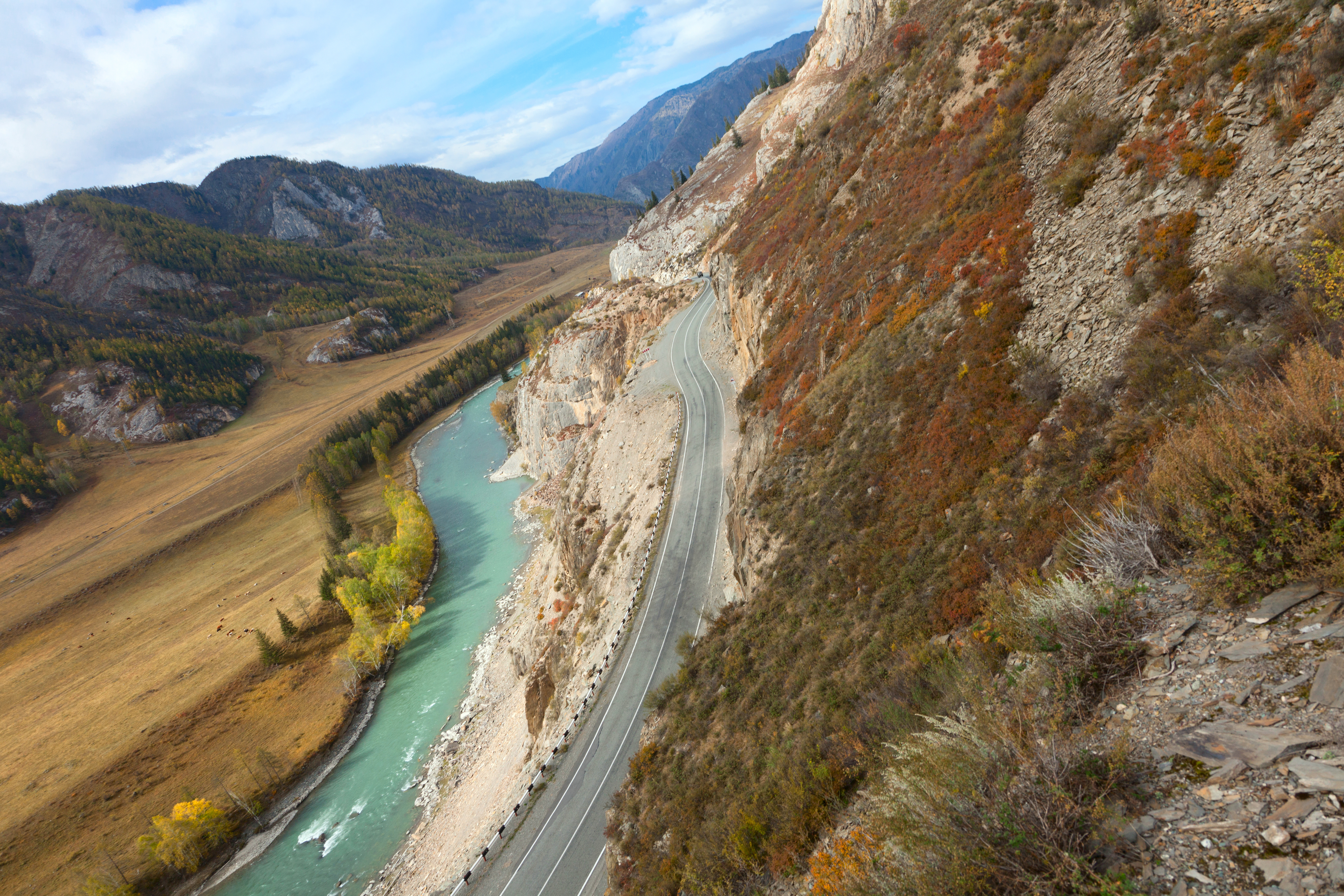 The road by the river in the Altai Mountains